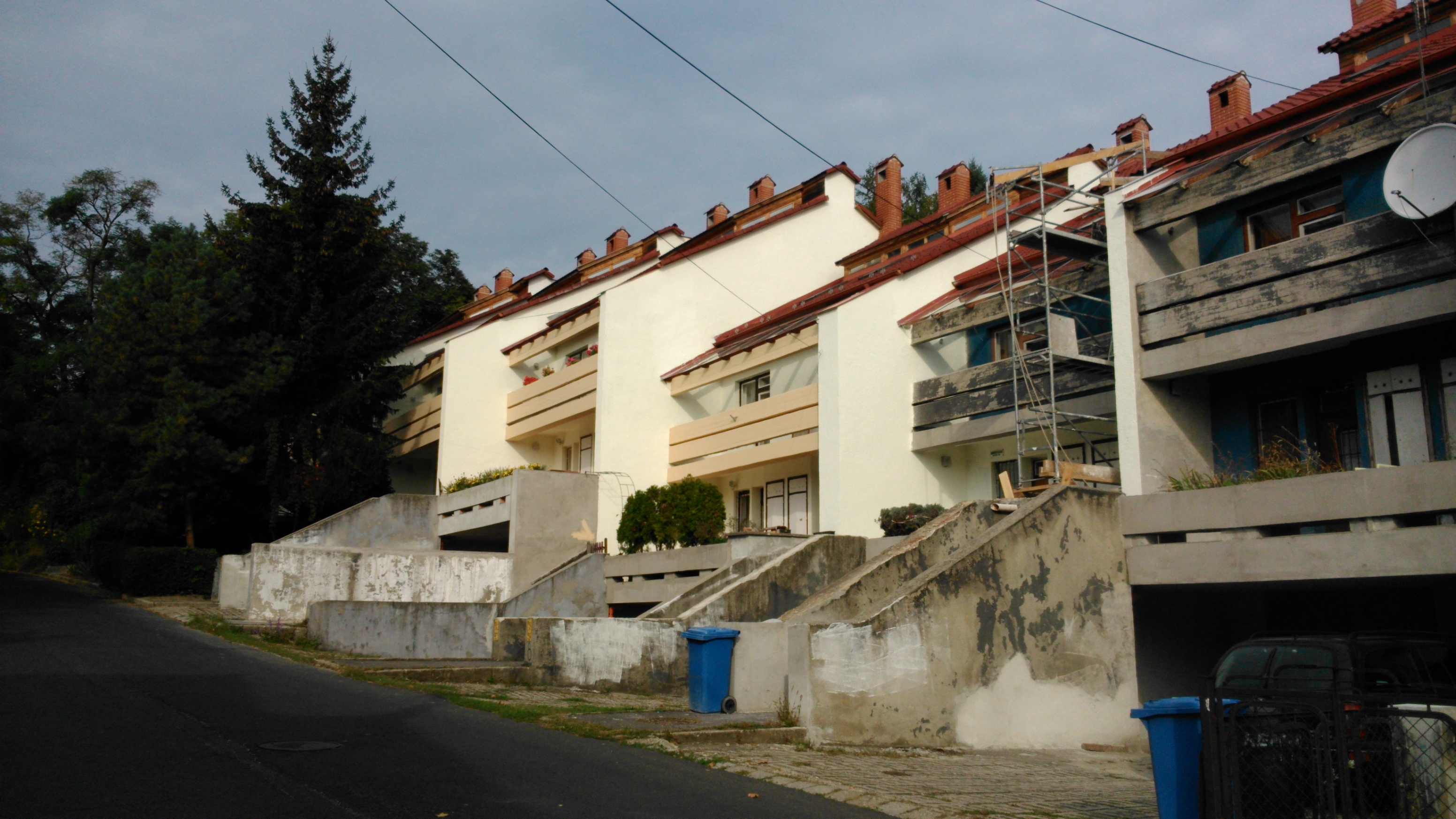 Artist's houses, Derkovits Street, Miskolc, Hungary